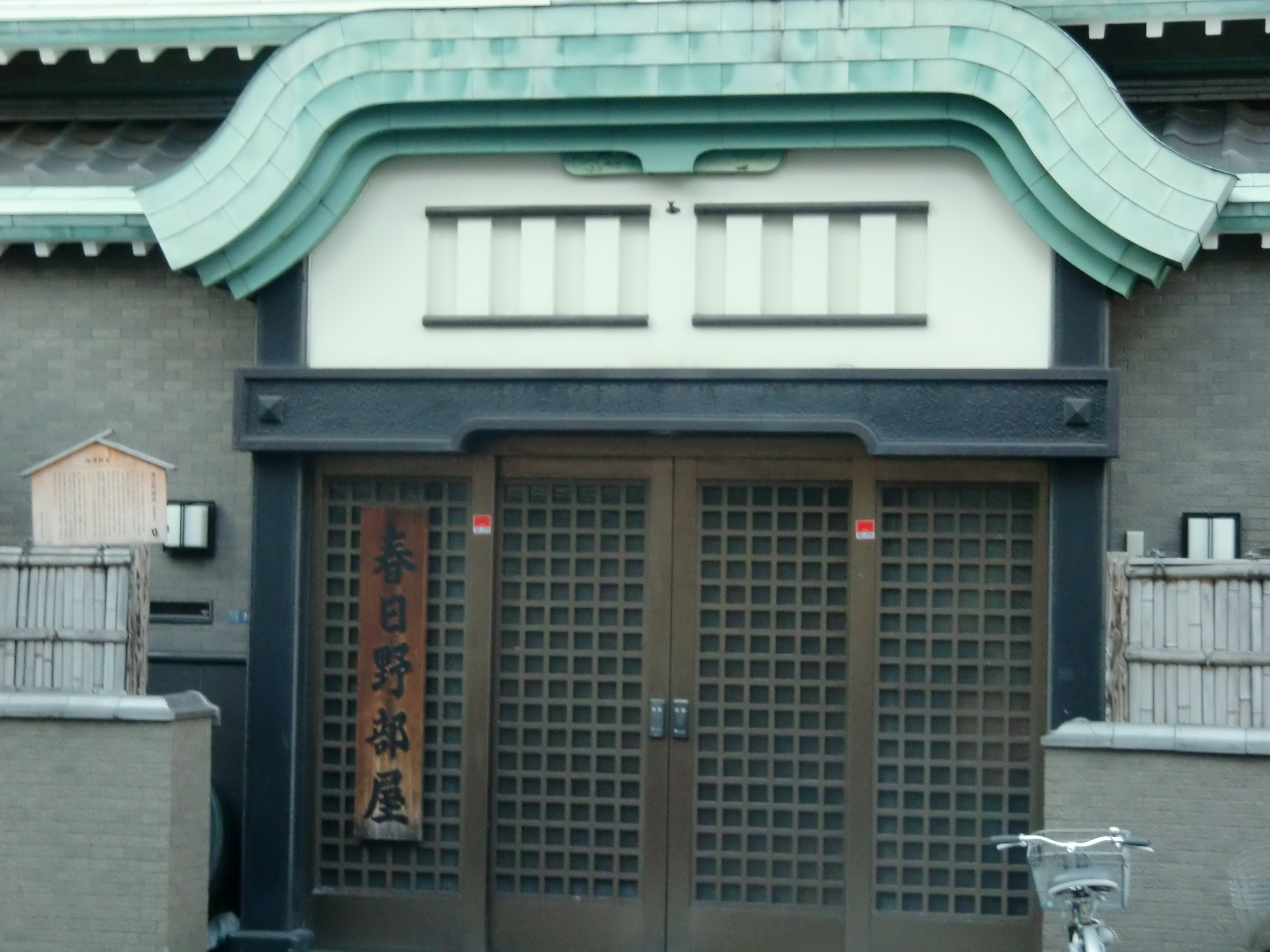 Taken outside the stable